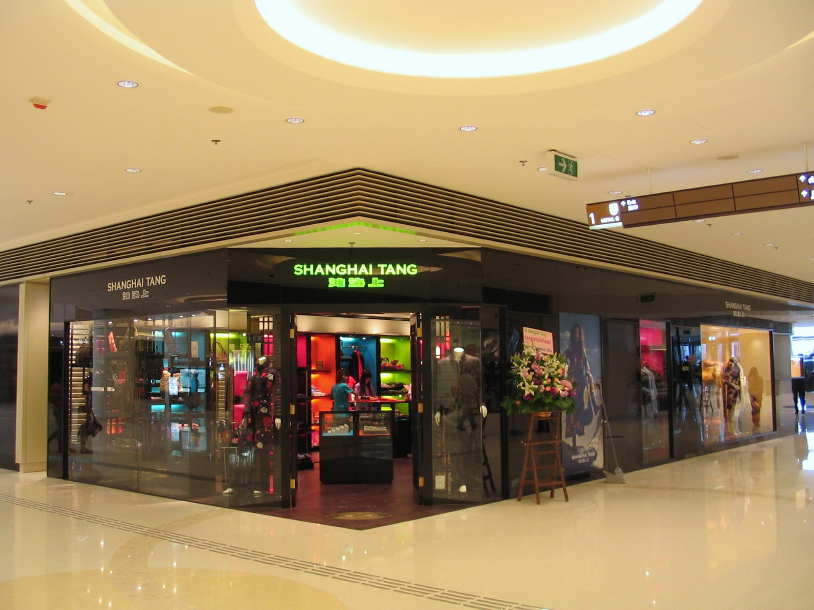 圓方-金區 METAL Zone of Elements, Union Square